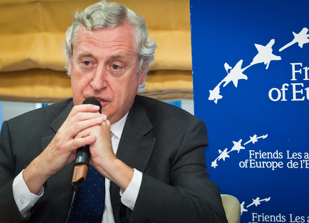 Friends of Europe - Asia 2050: Challenges ahead